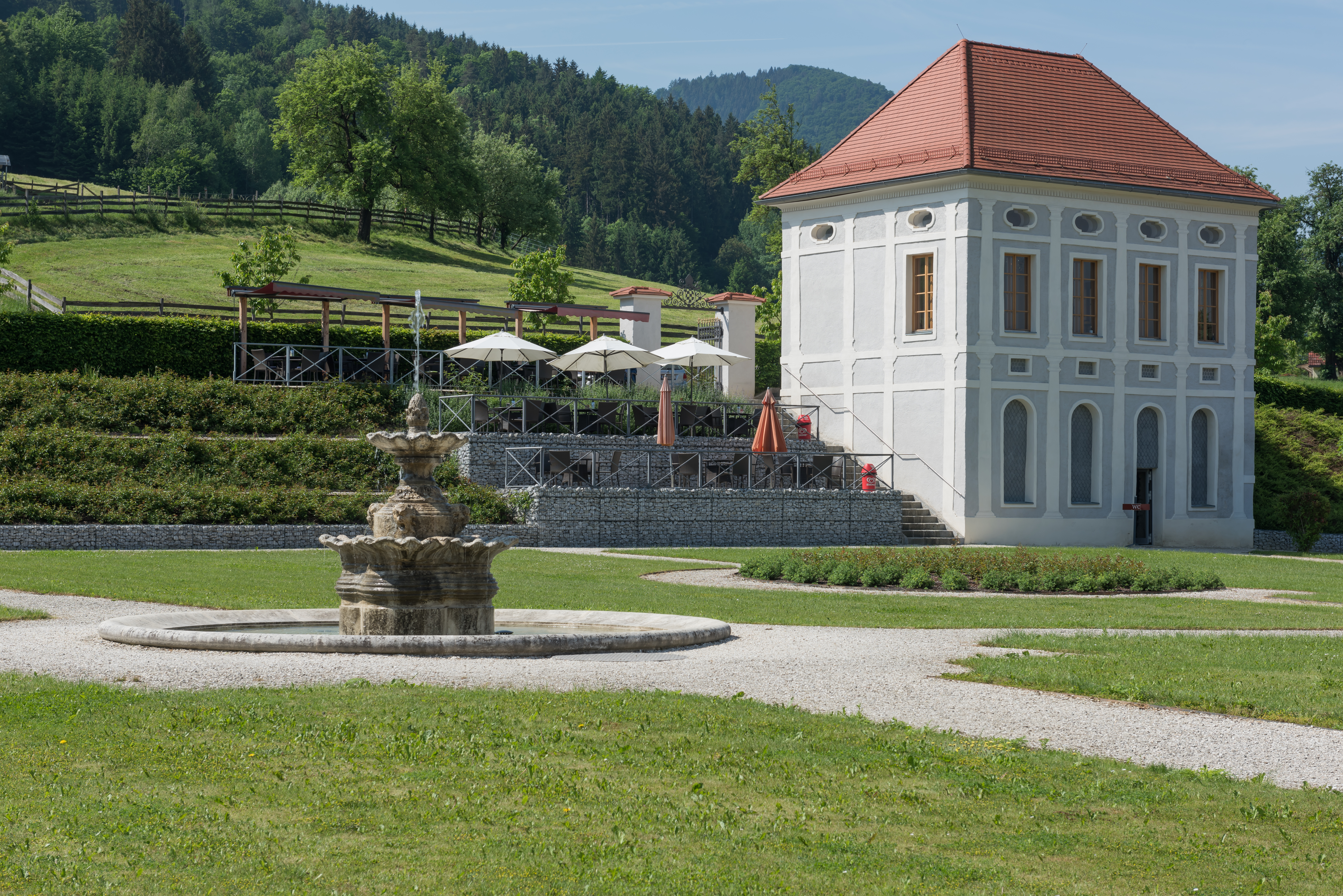 Lobisser`s studio in the garden of the benedictine monastery on Hauptstrasse #1, market town Sankt Paul im Lavanttal, district Wolfsberg, Carinthia, Austria, EU